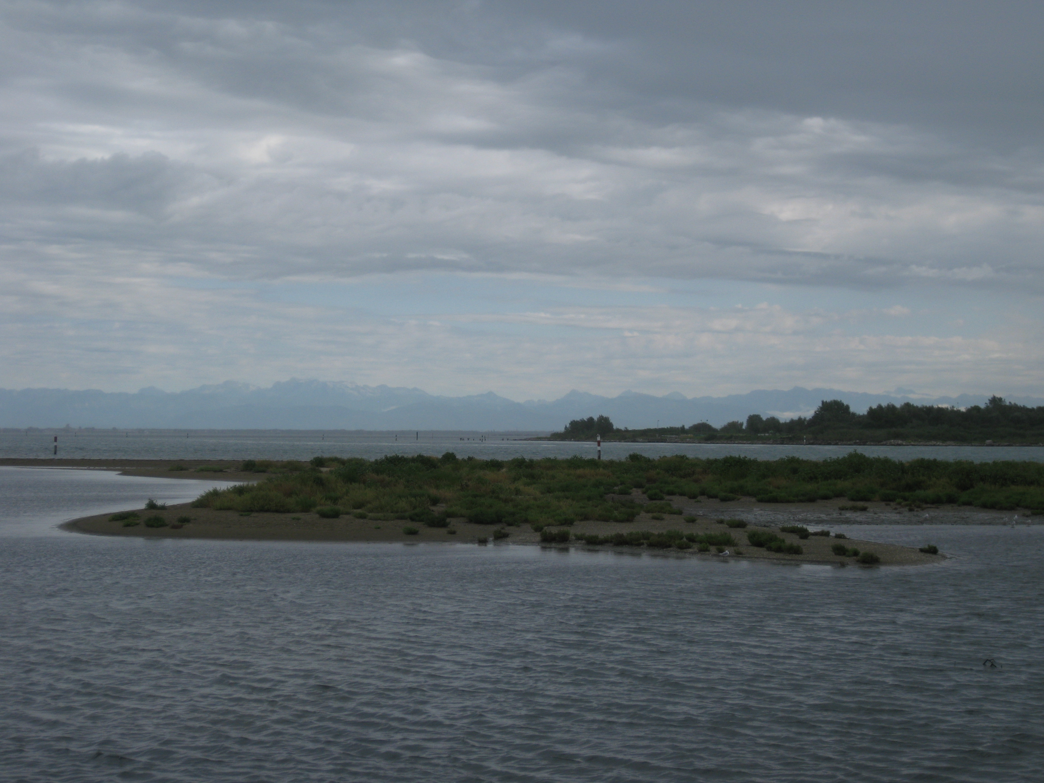 The Dock - Lignano ITALY